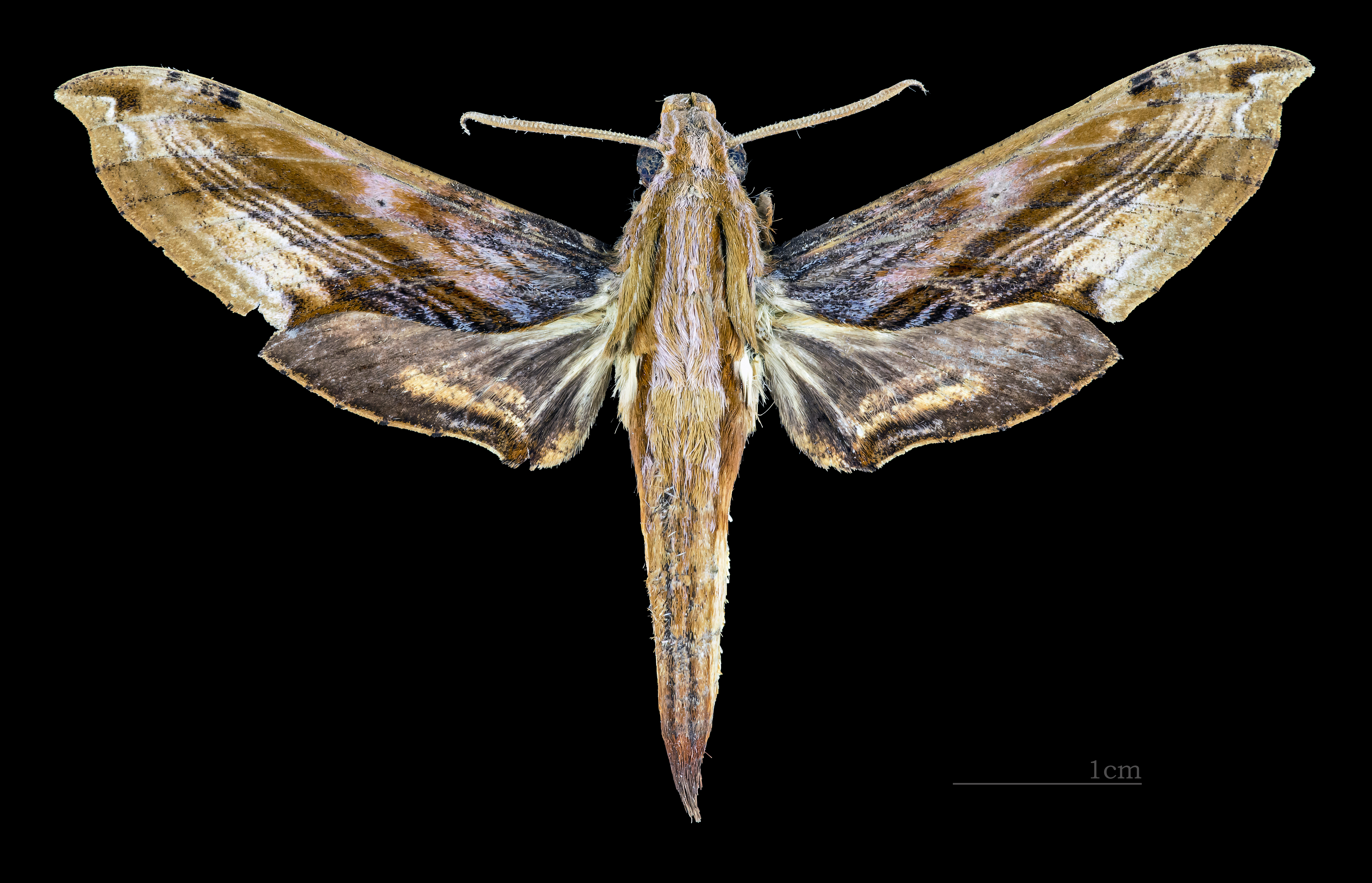 Eupanacra metallica] - Dorsal side Collection of the Mathematician Laurent Schwartz